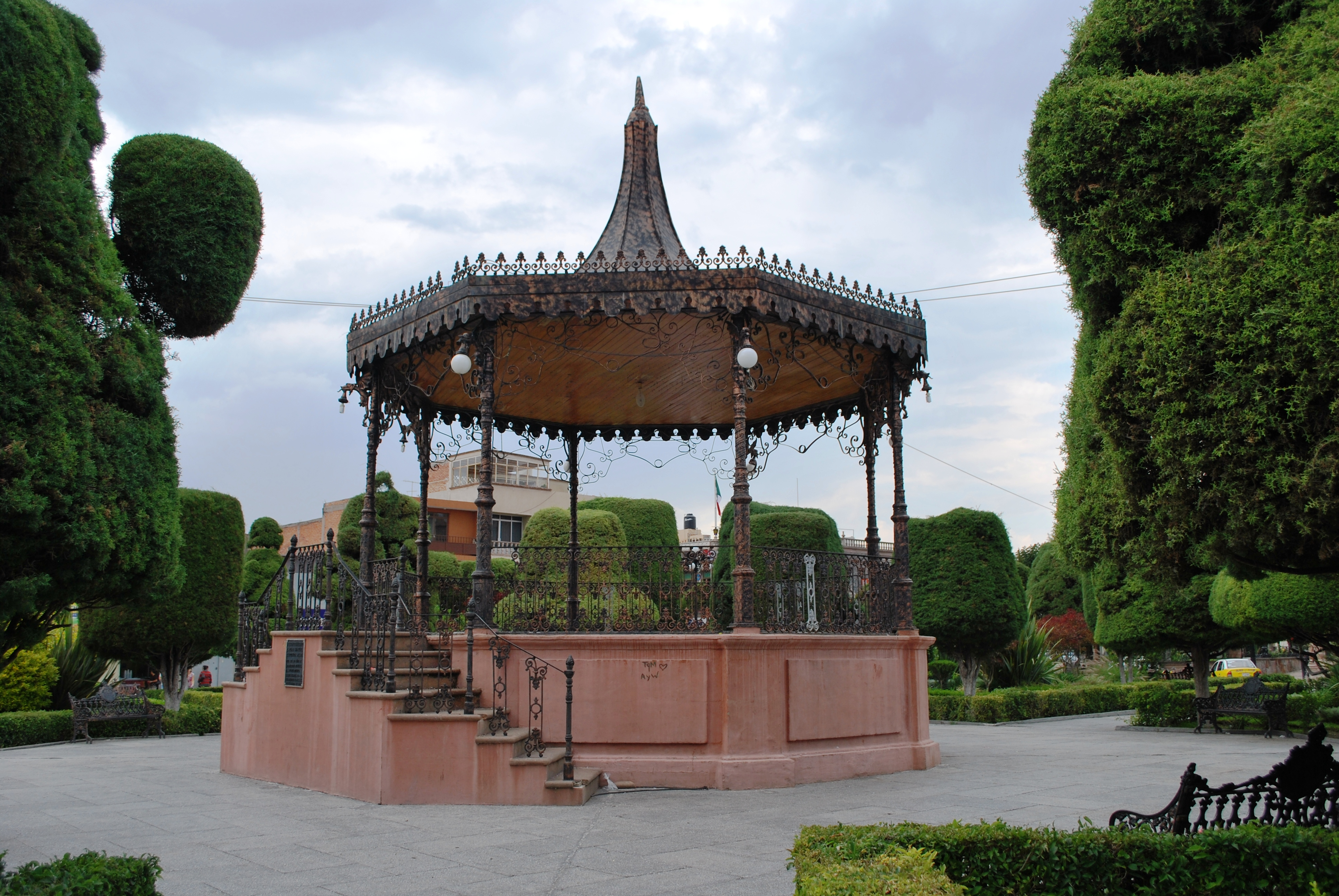 Kiosk at Encarnation de Diaz main plaza